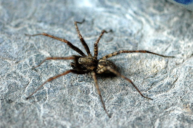 female Tegenaria ferruginea from Commanster, Belgian High Ardennes .